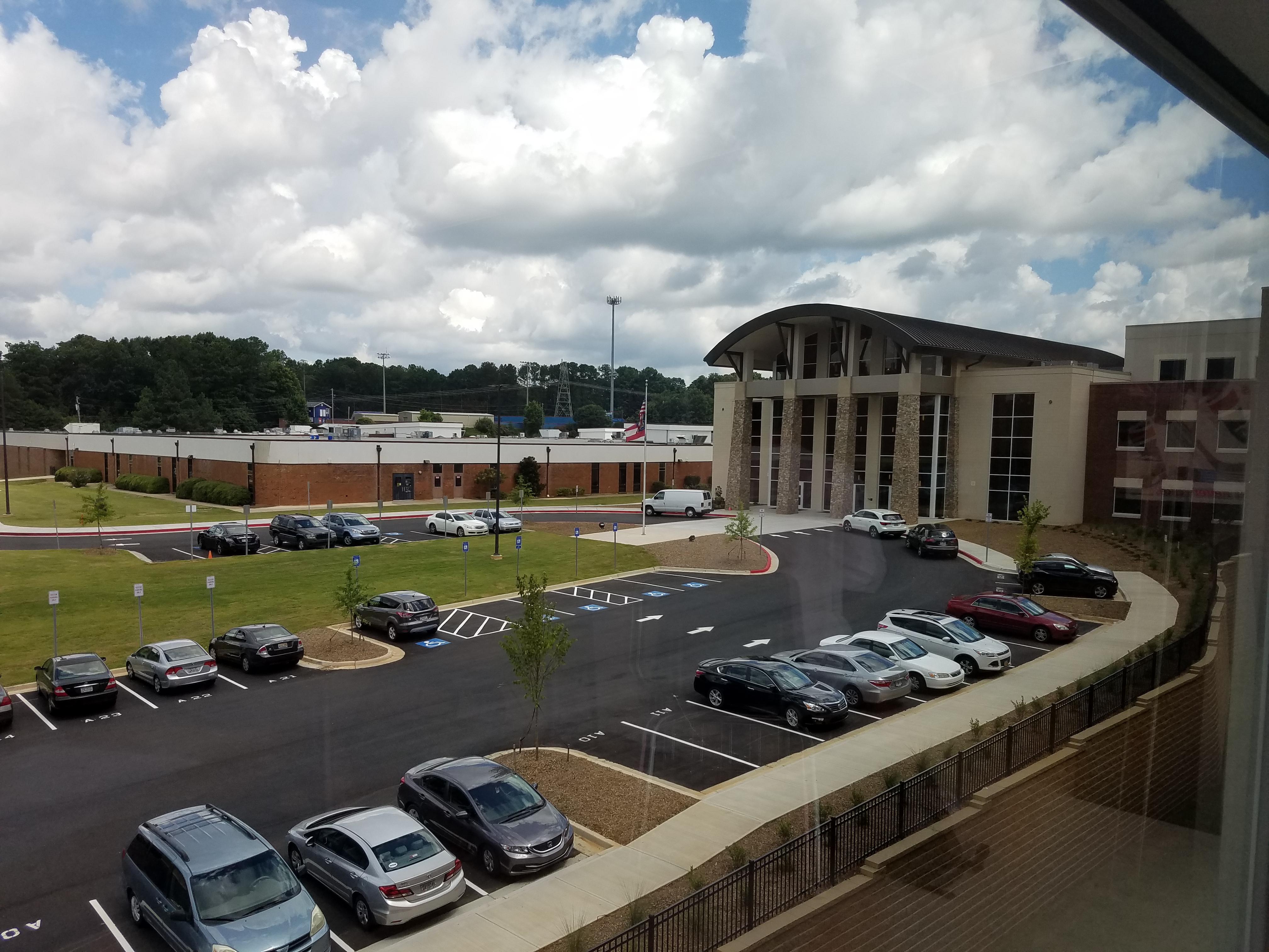 Walton Frontage, Old vs. New (Left - right)